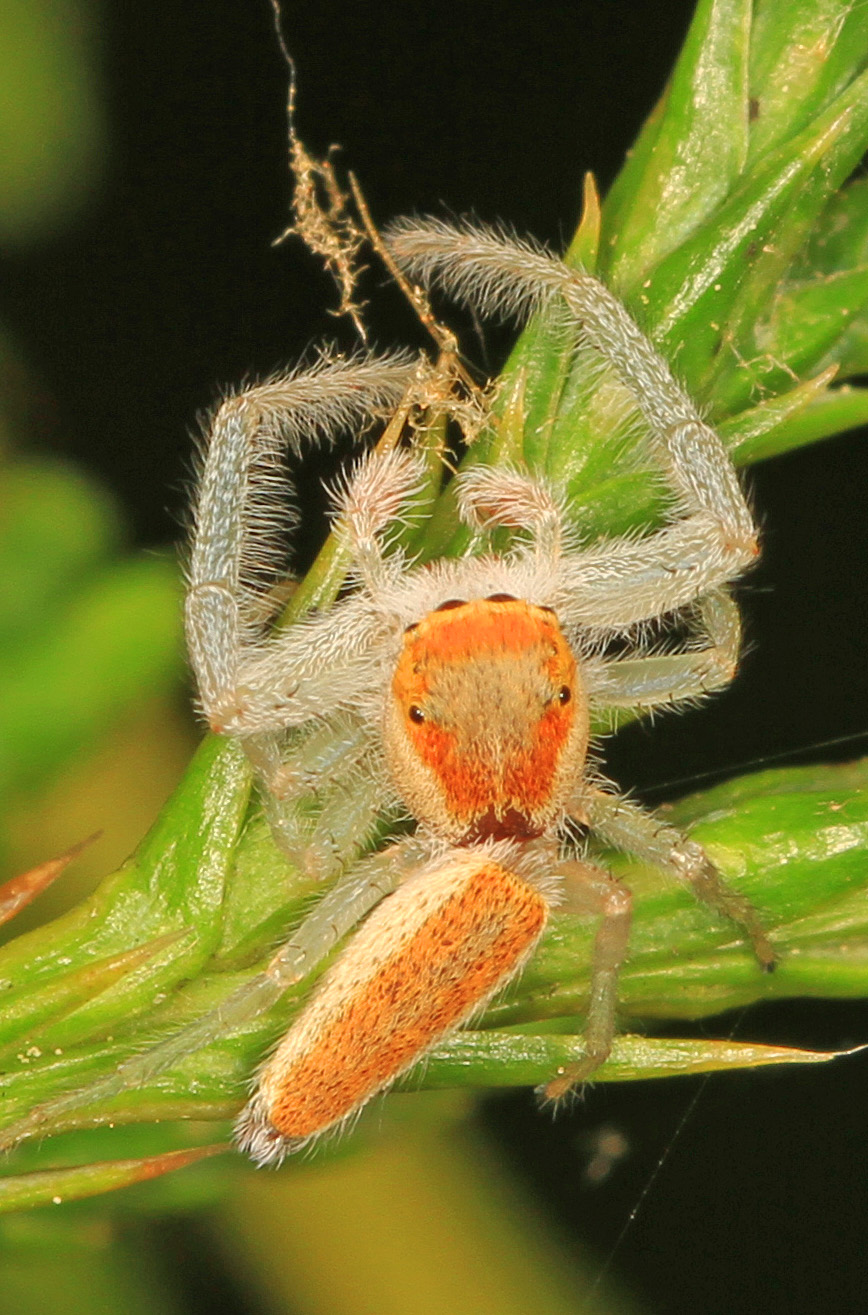 Jumping Spider - Hentzia mitrata, Kelly's Ford, Virginia